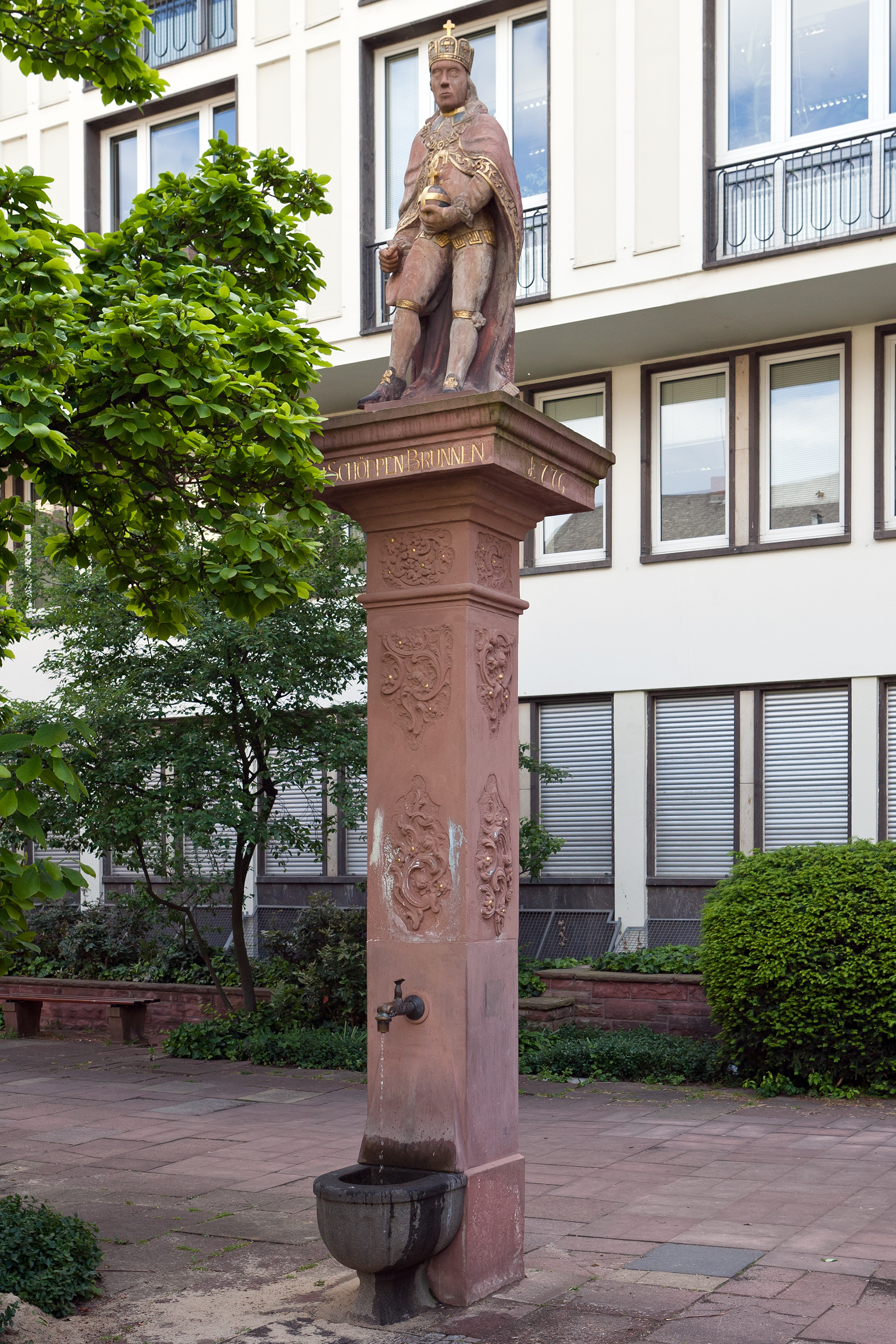 Frankfurt on the Main: Fried-Lübbecke-Anlage (Fried Lübbecke Area), Schöppenbrunnen (Schöppen Fountain) as seen from the northeast